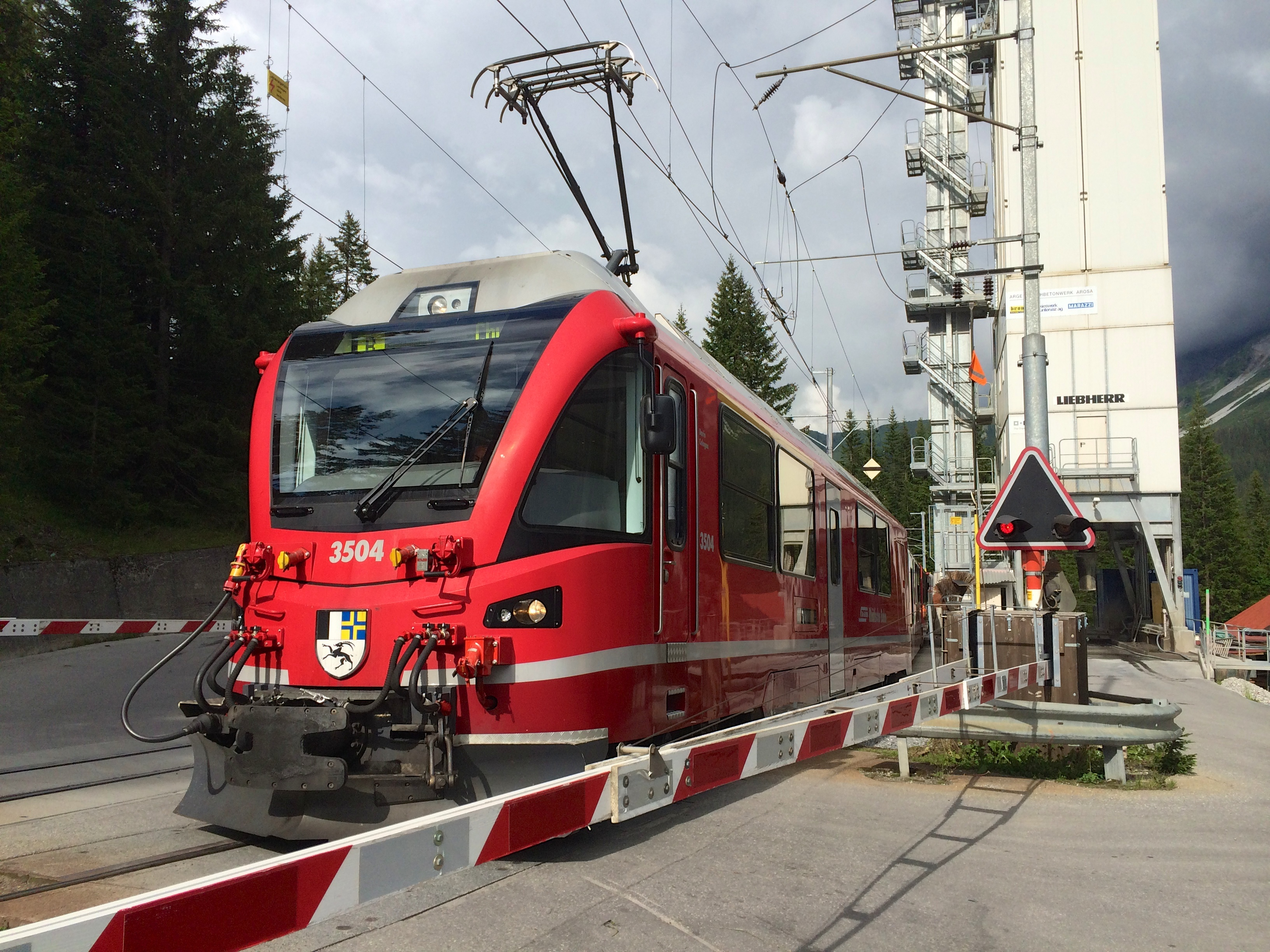 A ABe 8/12 train at Arosa conrete mixing plant, Chur-Arosa railway/Switzerland